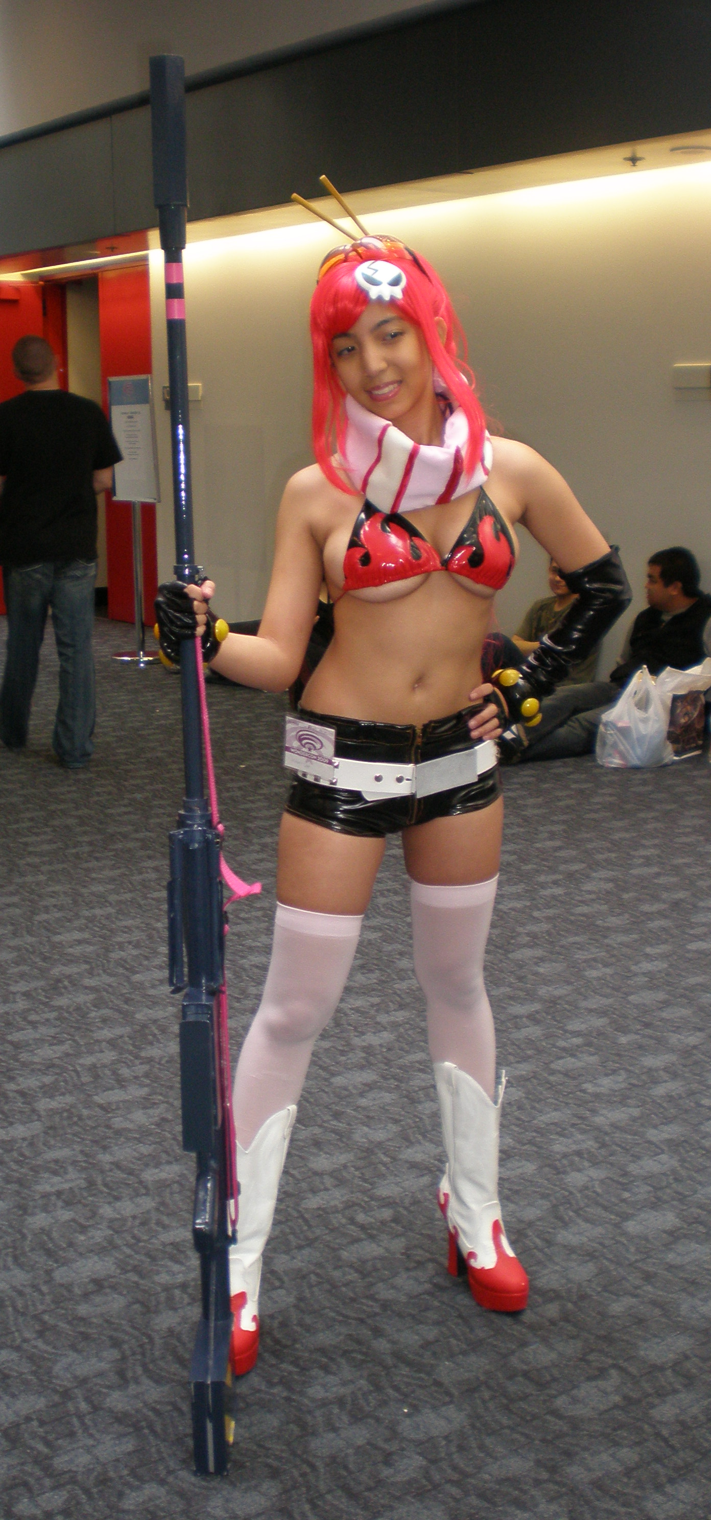 A cosplayer portraying Yoko Littner from the anime Gurren Lagann at WonderCon 2009.